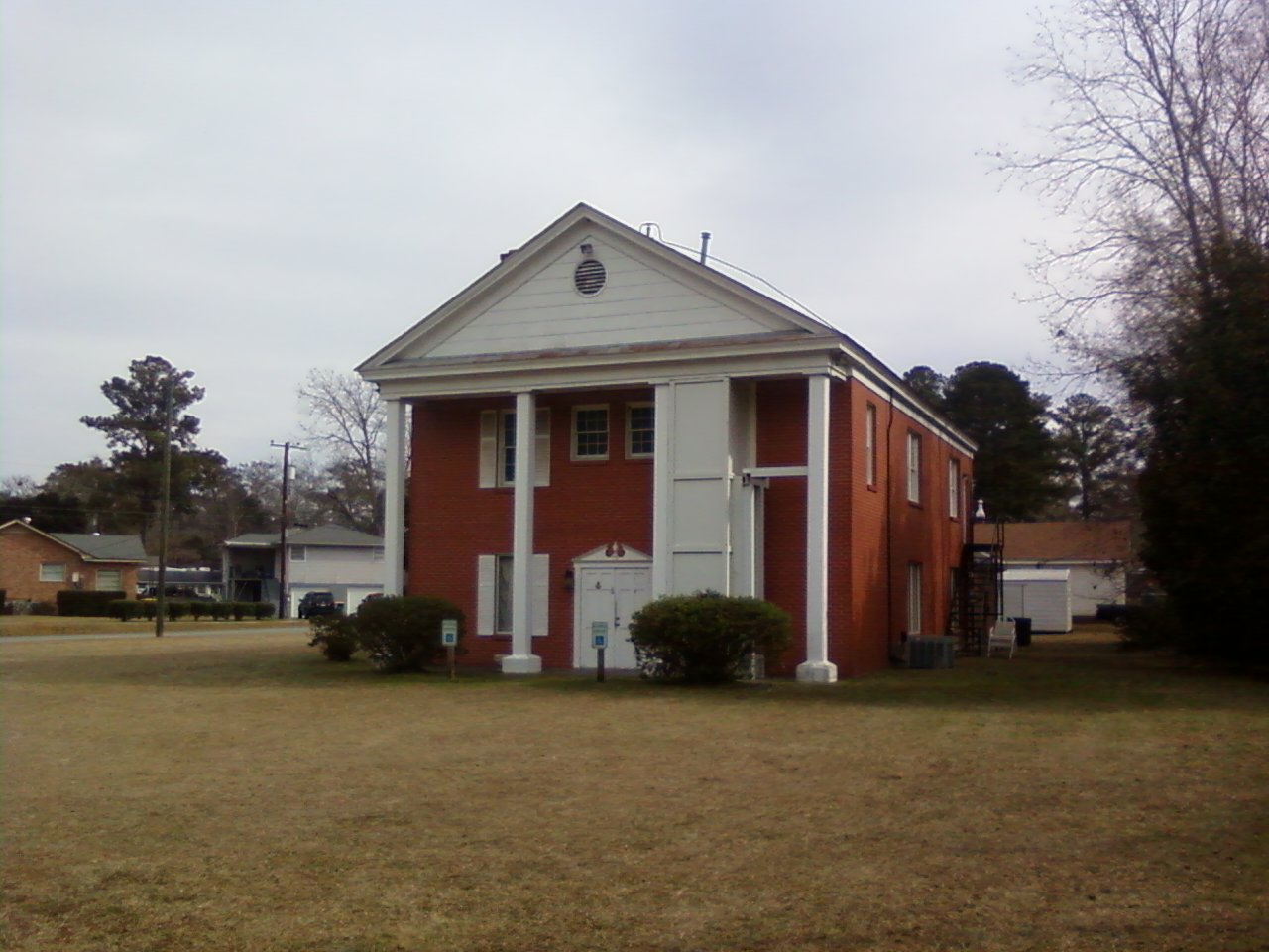 Eastern Star Temple Masonic Hall, located at 131 Rommel Avenue, Garden City, Georgia